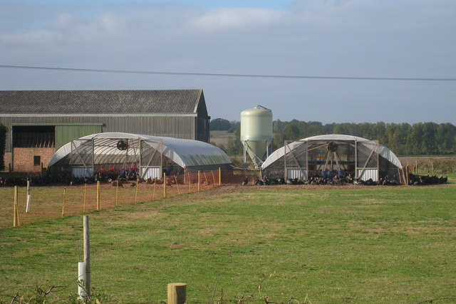 Turkeys at Priory Farm